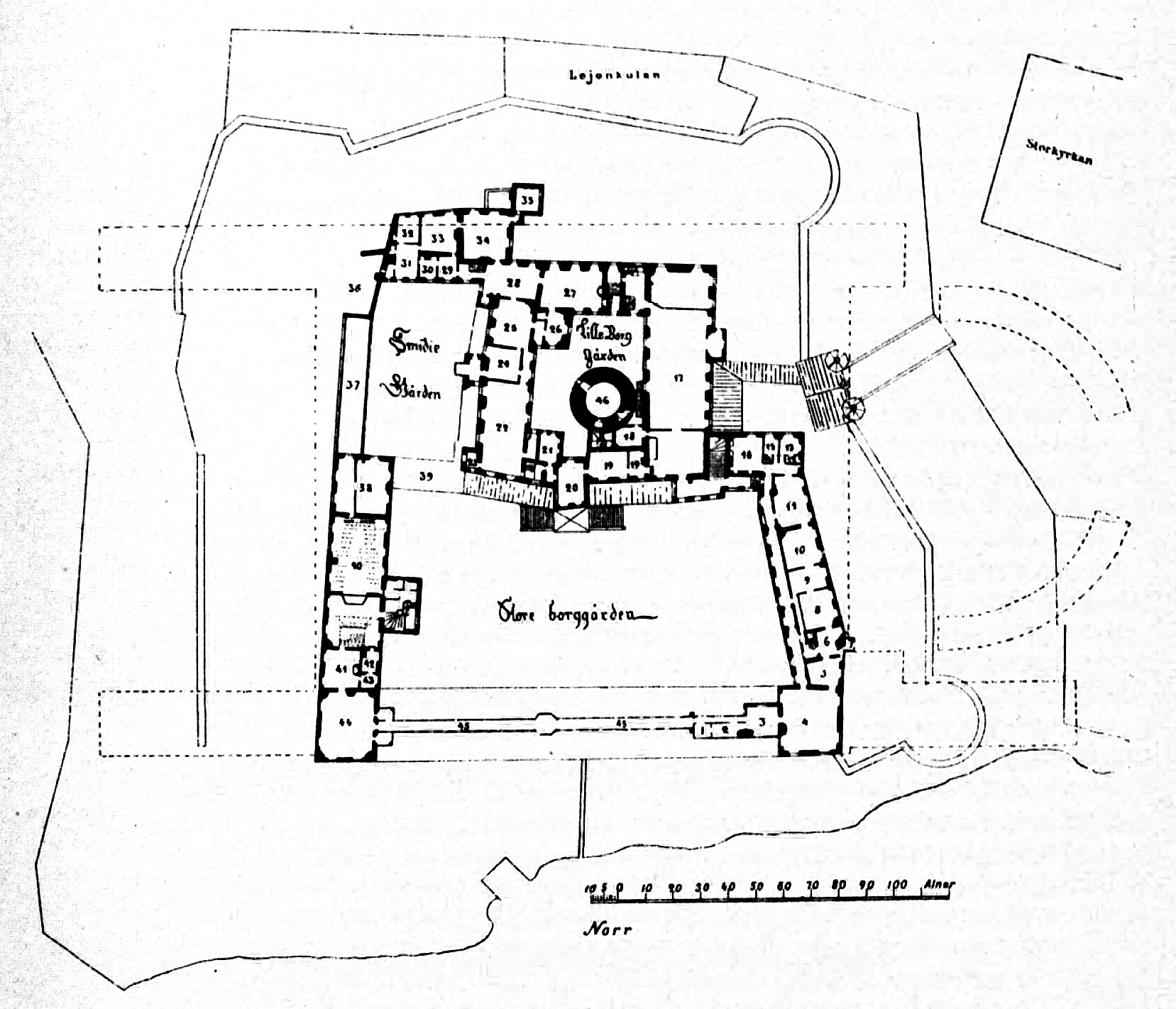 Plan of Stockholm Castle's uppermost floor in 1660. Based on a drawing in the castle archive, with the bailey and moat added. The dotted lines mark the location of the present palace. North is at the bottom of the image.